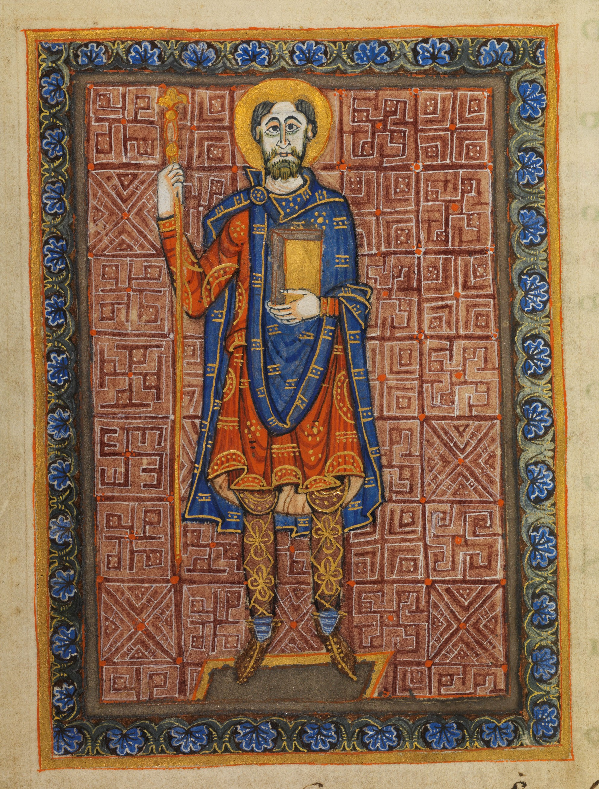 From the regulation of the monastery Niedermünster in Regensburg